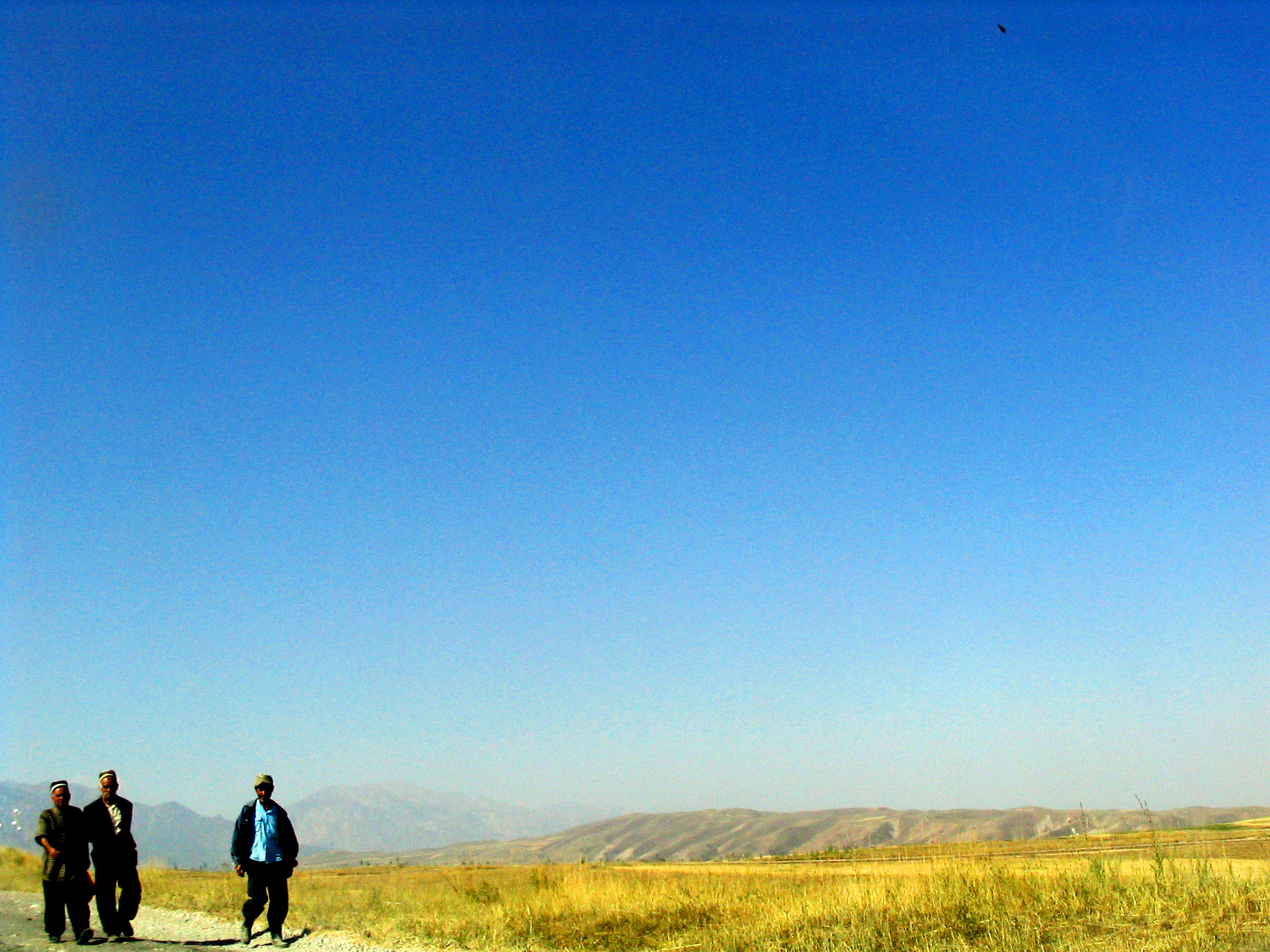 On the road (Near Ishafan)